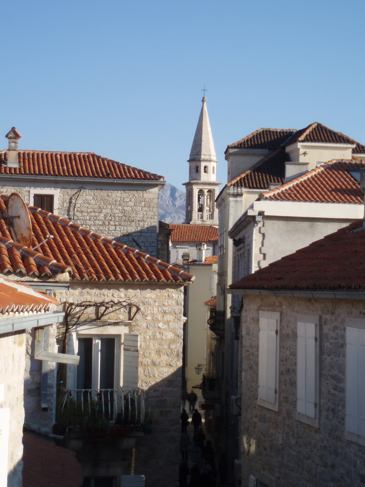 Budva, view from Citty wall